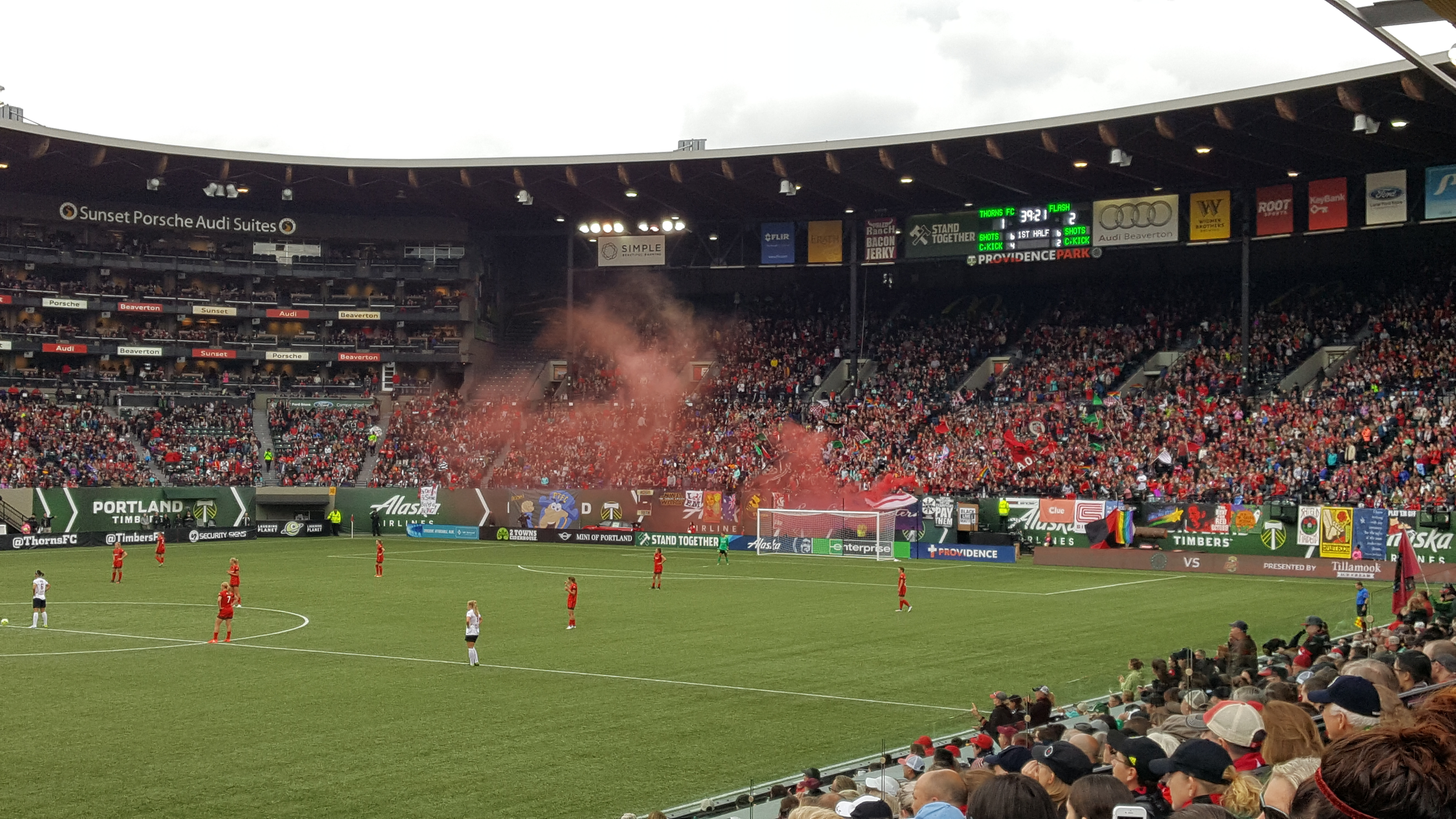 Thorns, Oct. 2016